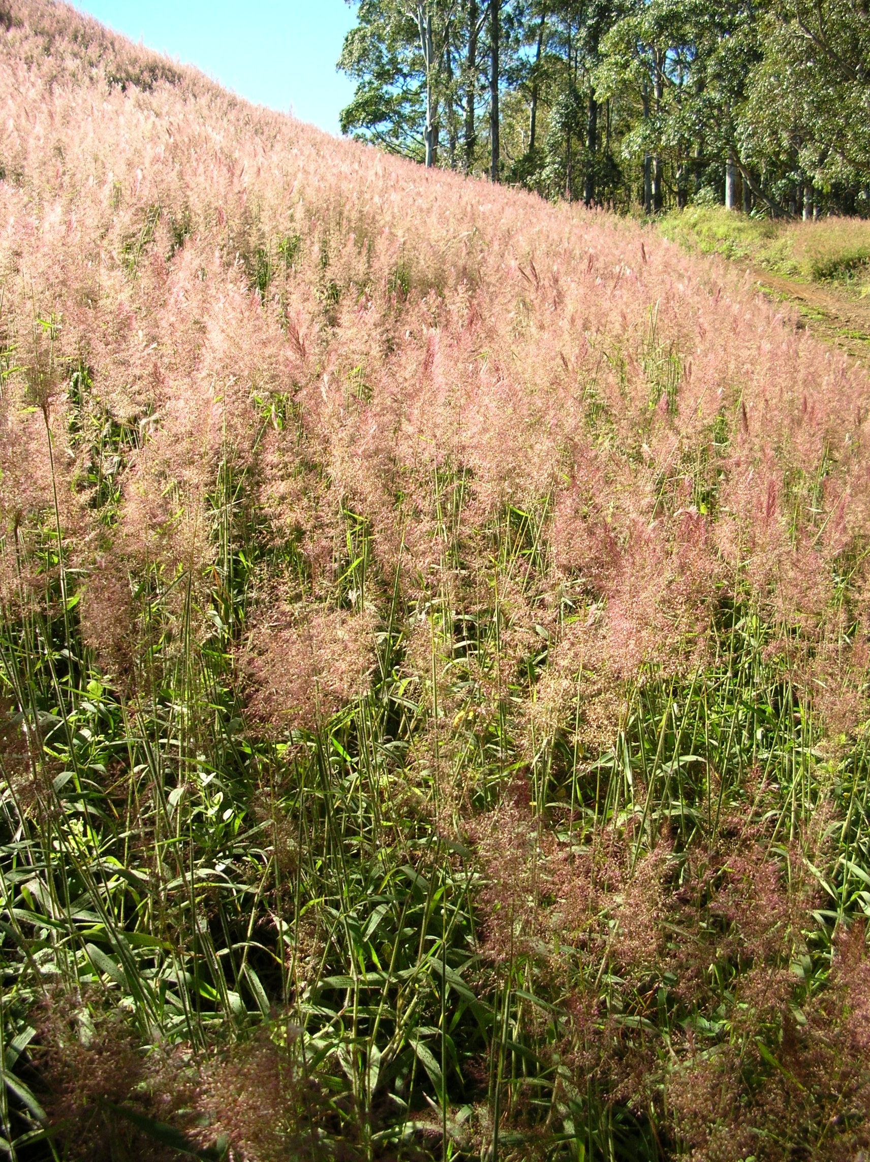 Melinis minutiflora (plumes). Location: Maui, Makawao Forest Reserve